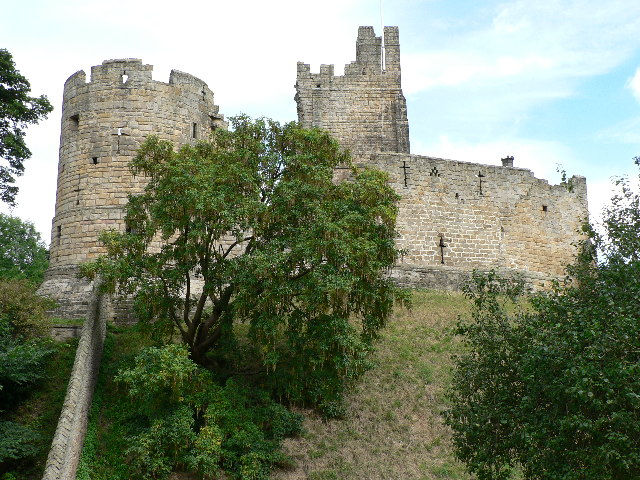 Prudhoe Castle (grid reference NZ09166341) is a ruined medieval English castle situated on the south bank of the River Tyne at Prudhoe, Northumberland.